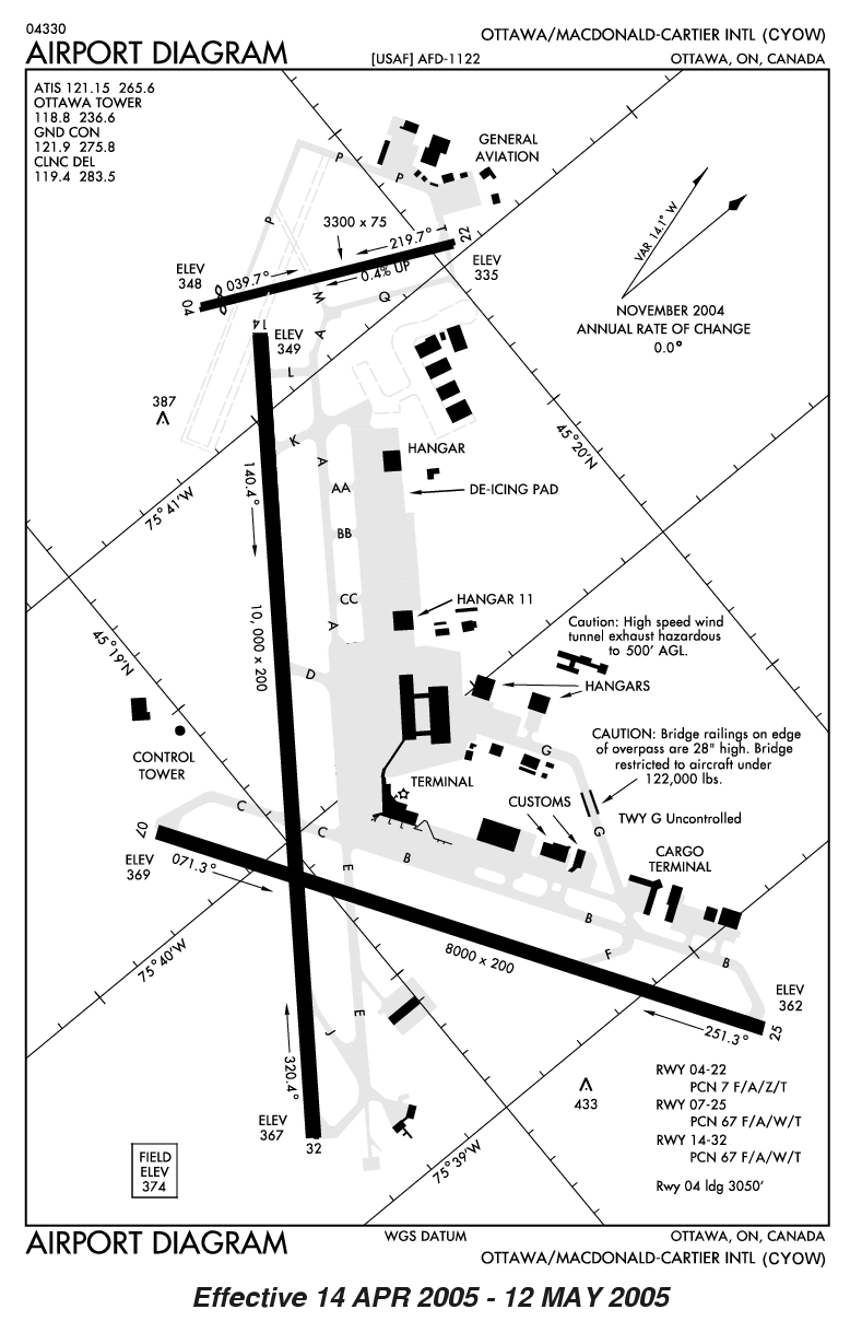 U.S. DAFIF airport diagram of Ottawa/Macdonald-Cartier International Airport.